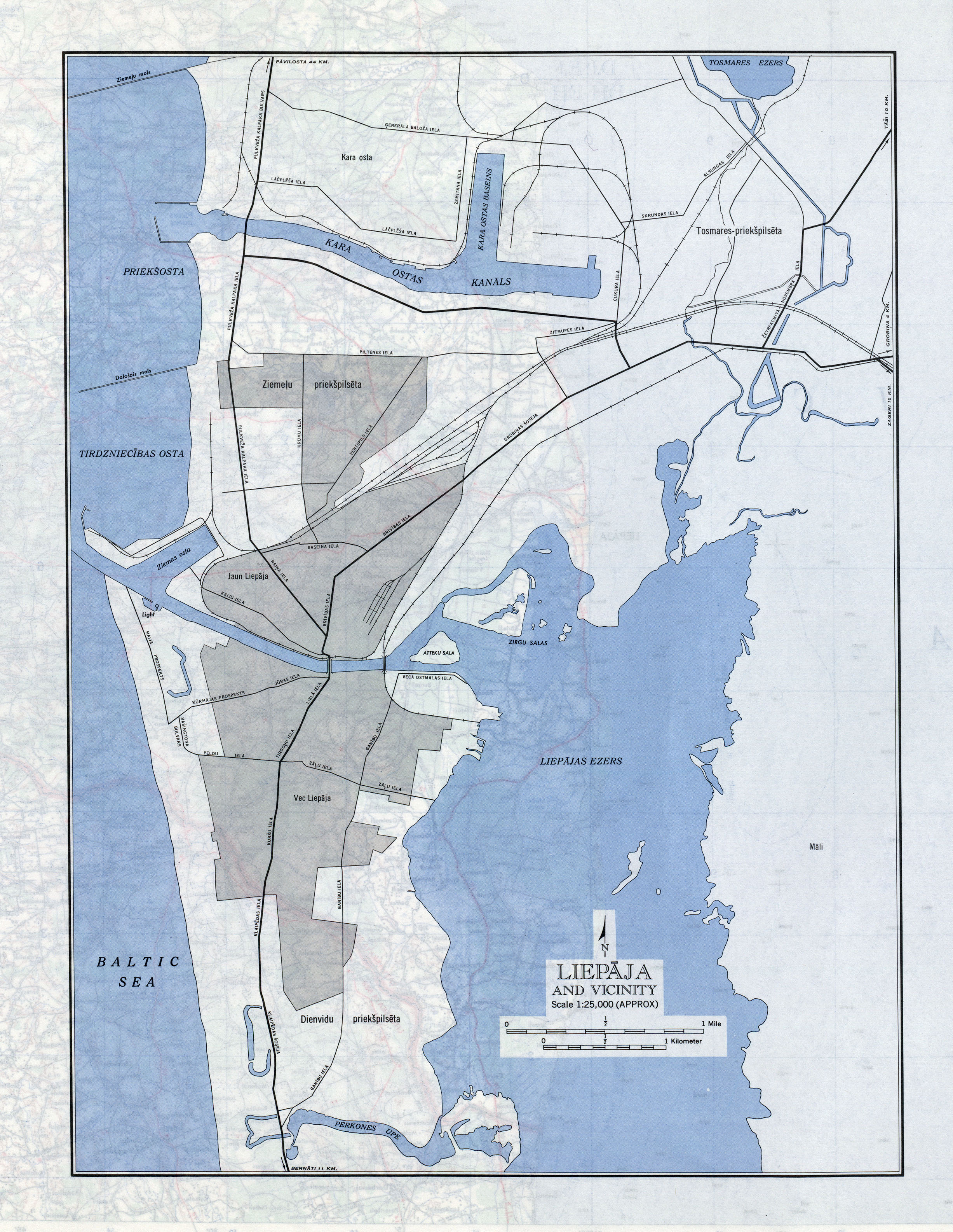 List from Eastern Europe AMS Topographic Maps. Series N501, U.S. Army Map Service, 1954